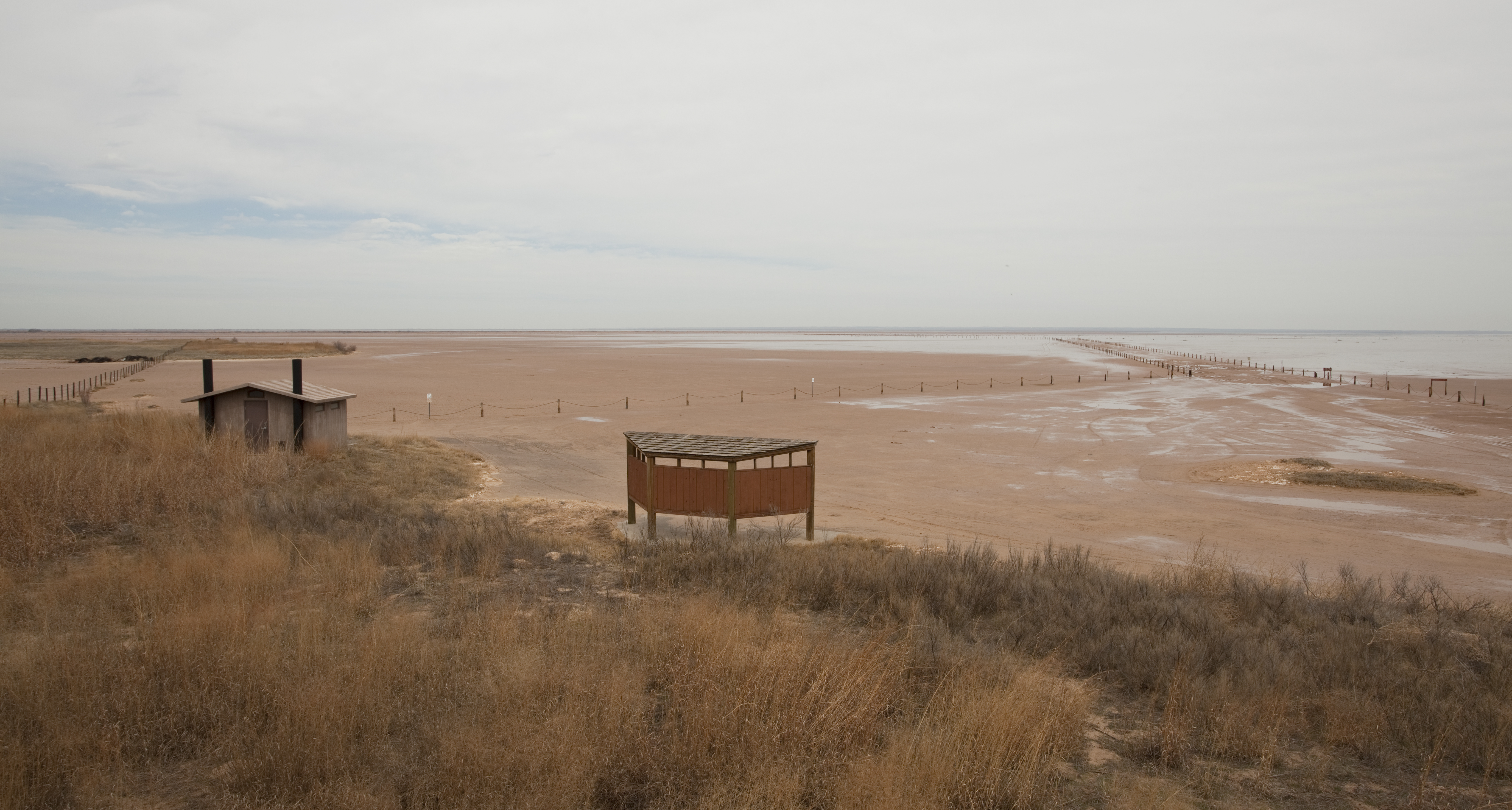 A wet day at Salt Plains National Wildlife Refuge, Alfalfa County, Oklahoma.